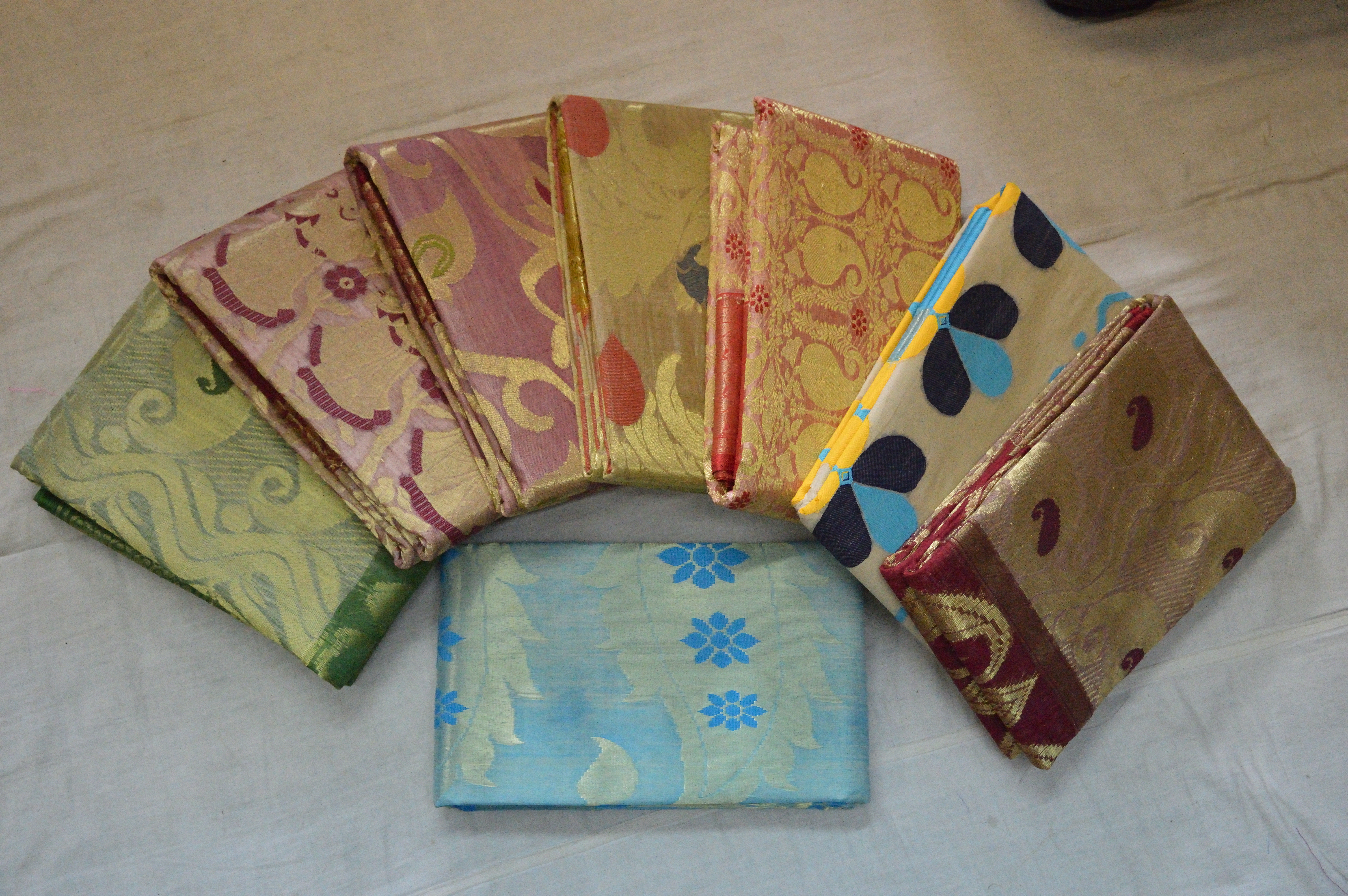 This videograph was teken at the 2 Natun Phulia or Fulia, Nadia.